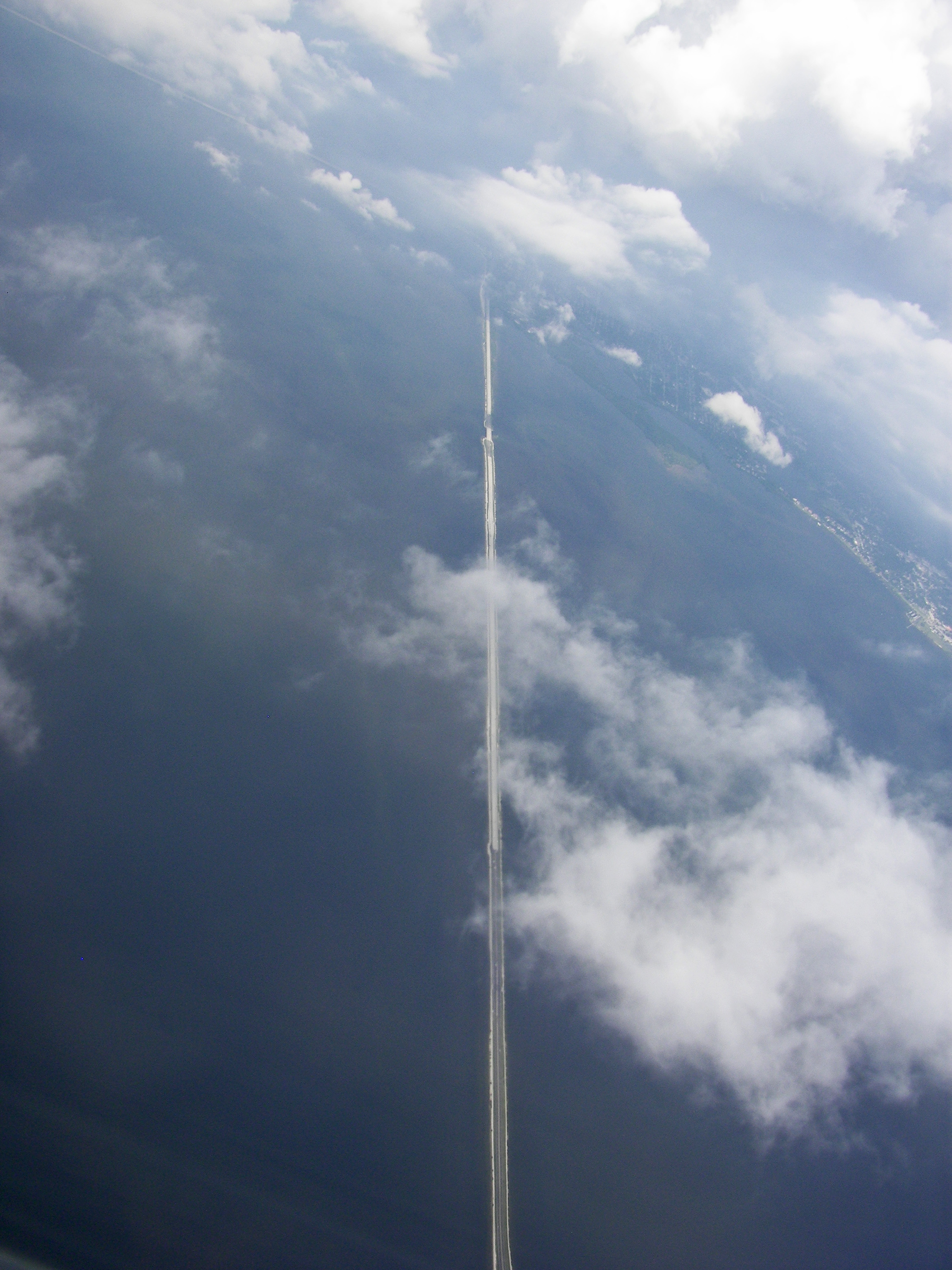 Aerial view of the Courtney Campbell Causeway from the Tampa side to the Clearwater side.